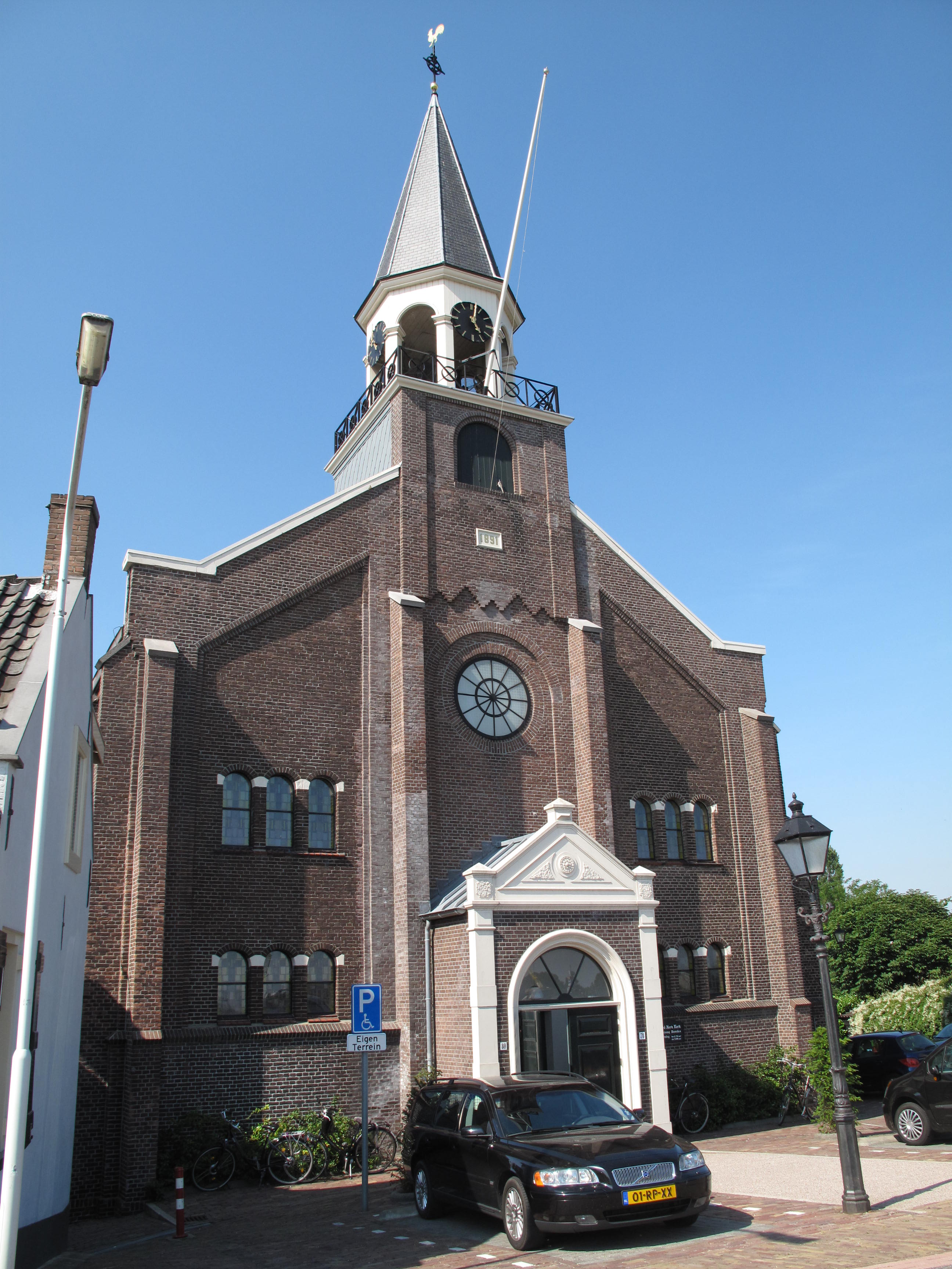 Papendrecht, Protestant church